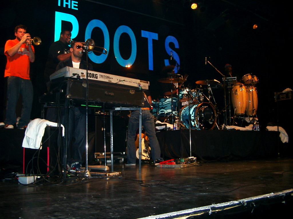 The Roots at the Kool Haus nightclub in Toronto, Canada.